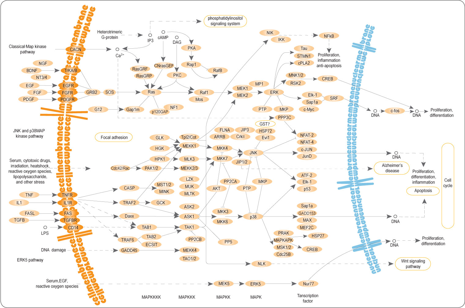 The mitogen-activated protein kinase (MAPK) pathway, designed and donated to Wikpedia by Abgent, graphic execution by User:kosigrim